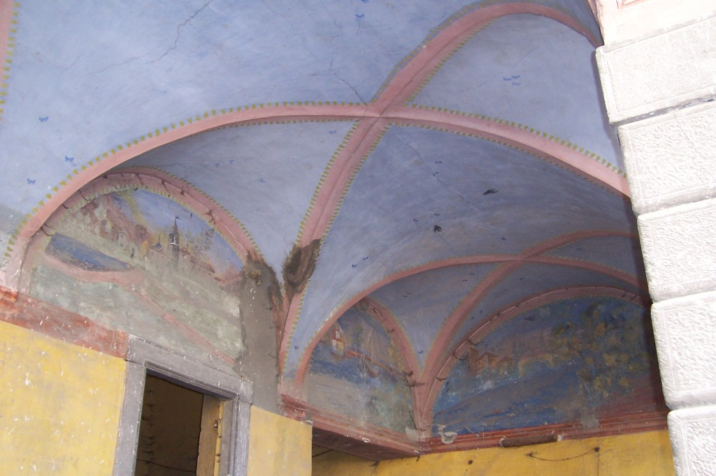 Paintings in the Palace Celeri Martinengo. Malonno, Val Camonica